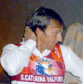 Paolo De Chiesa (1956), alpine skier and journalist from Italy, in 2010 (cropped from File:Paolo De Chiesa and Deborah Compagnoni.jpg)